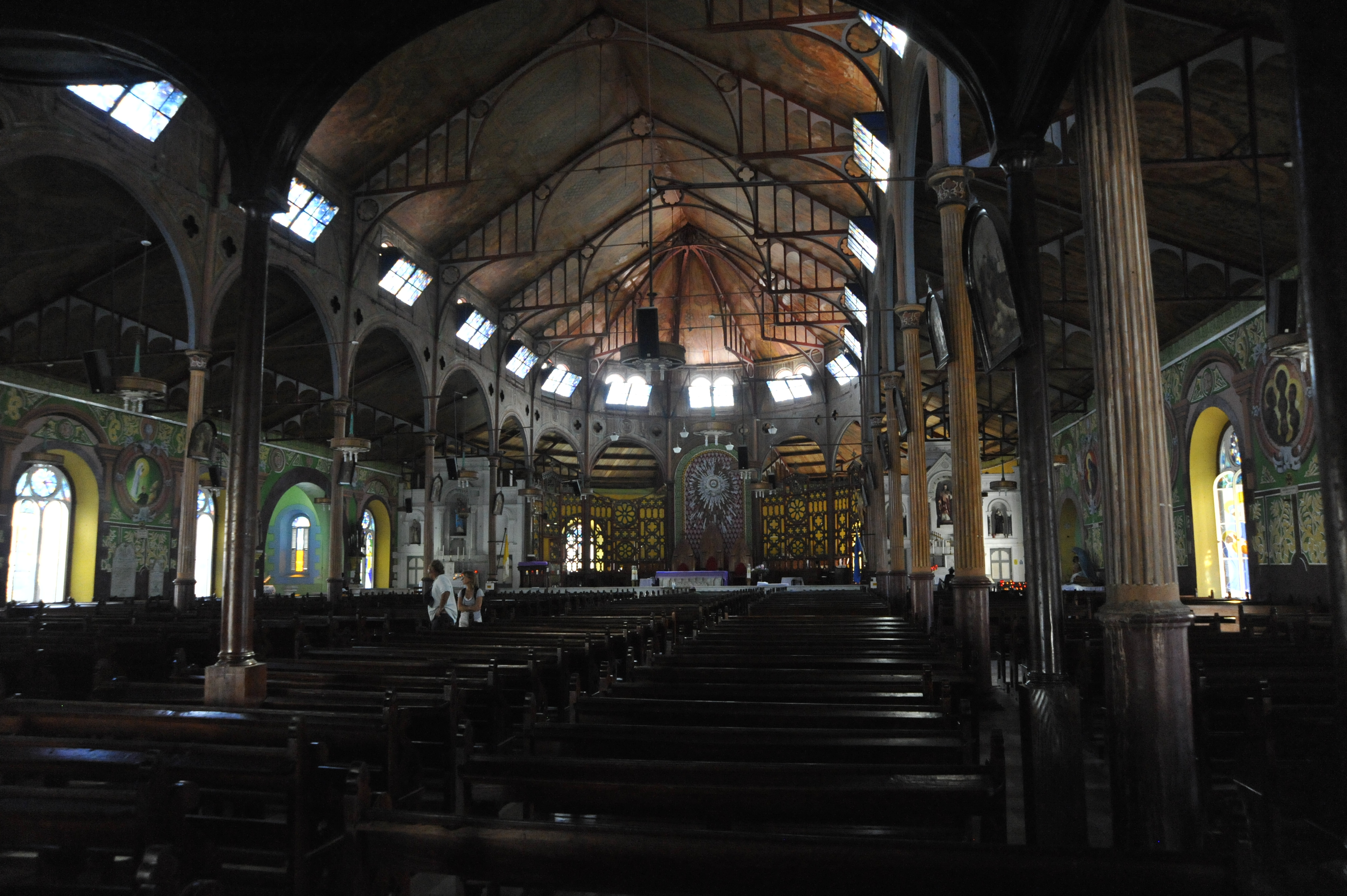 Interior of the Basilica of Immaculate Conception, Castries, St. Lucia